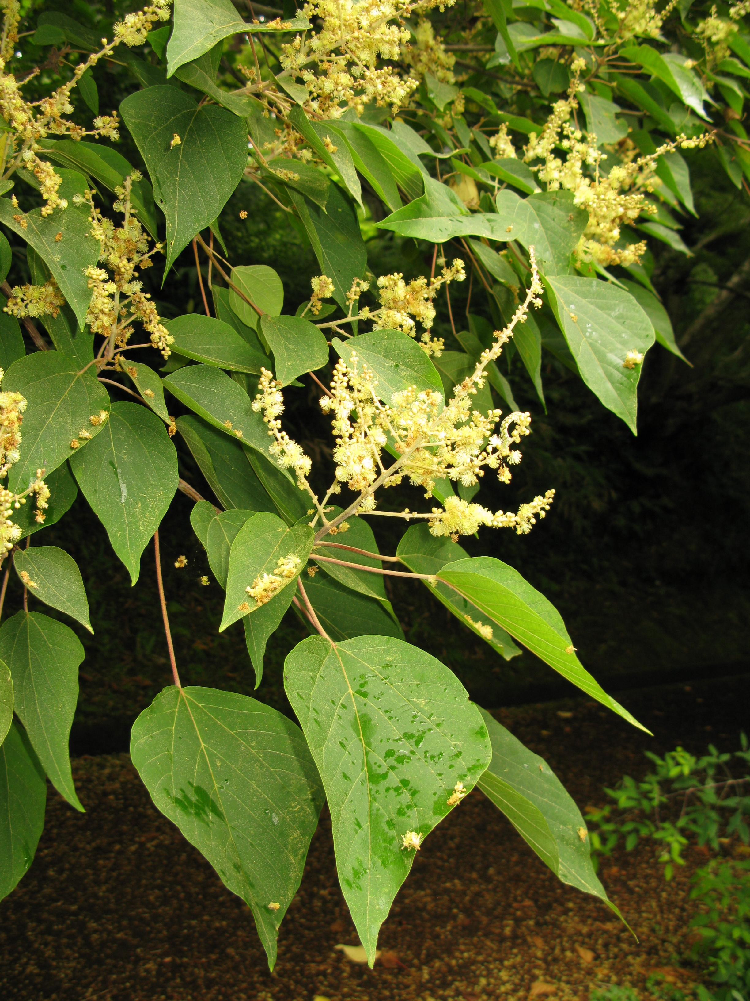 Mallotus japonicus ,male flowers, Matsushima, Miyagi pref., Japan